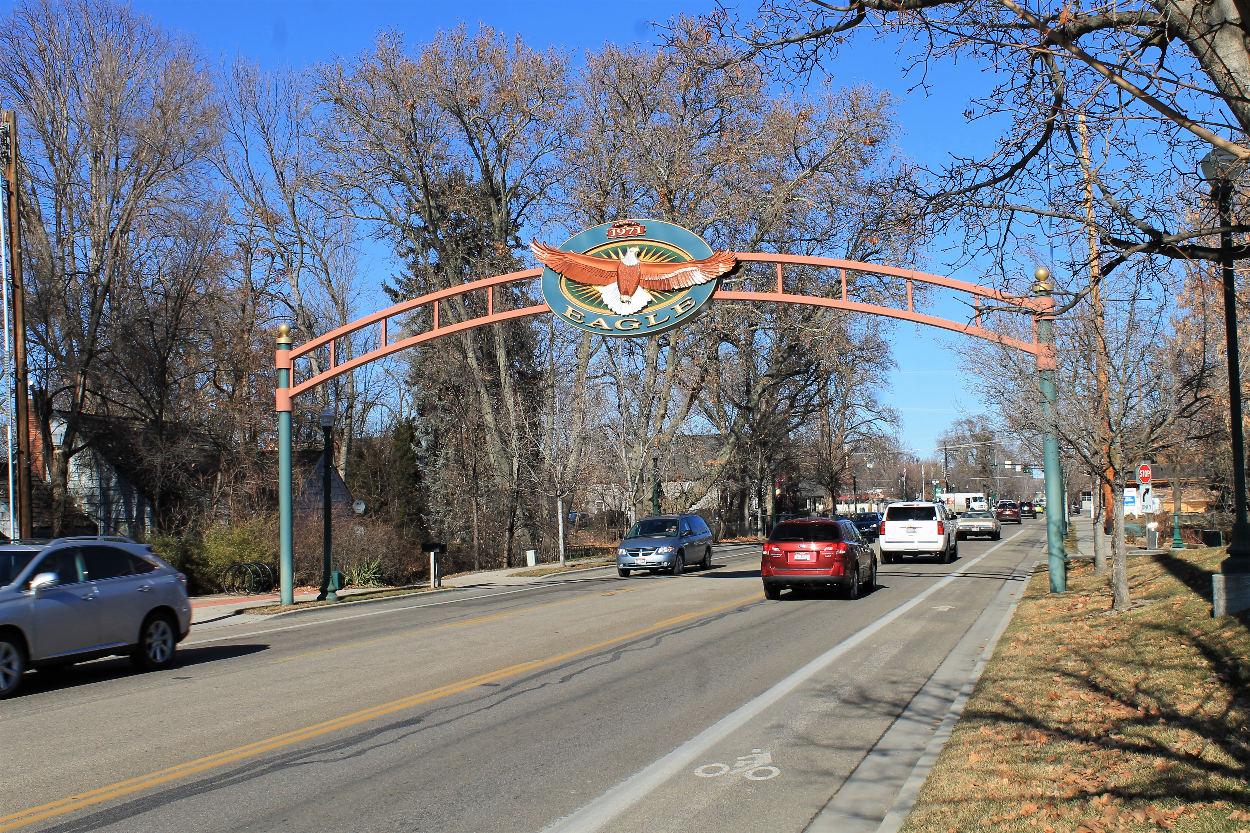 City of Eagle sign located in downtown Eagle. Photo taken by Richard Mouser on January 29th, 2019.